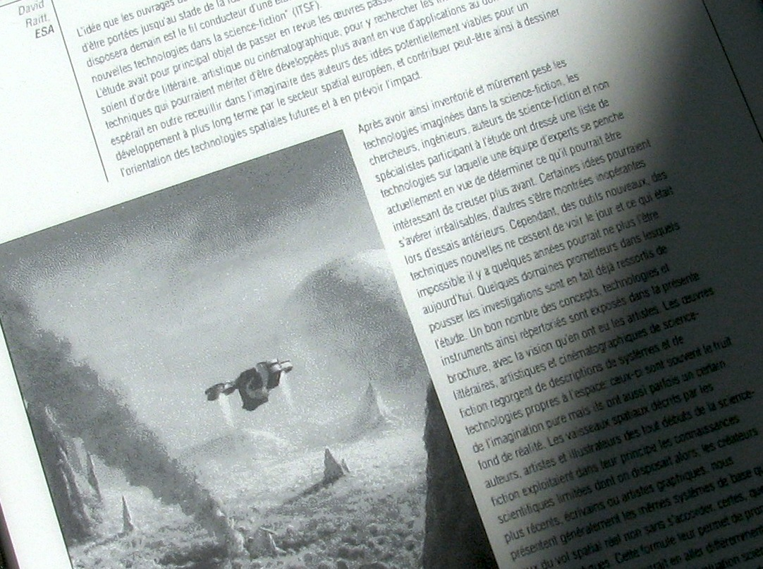 e-ink display details on IRex iLiad ebook reader outdoors in sunlight. Electronic paper. Electrophoretic display.